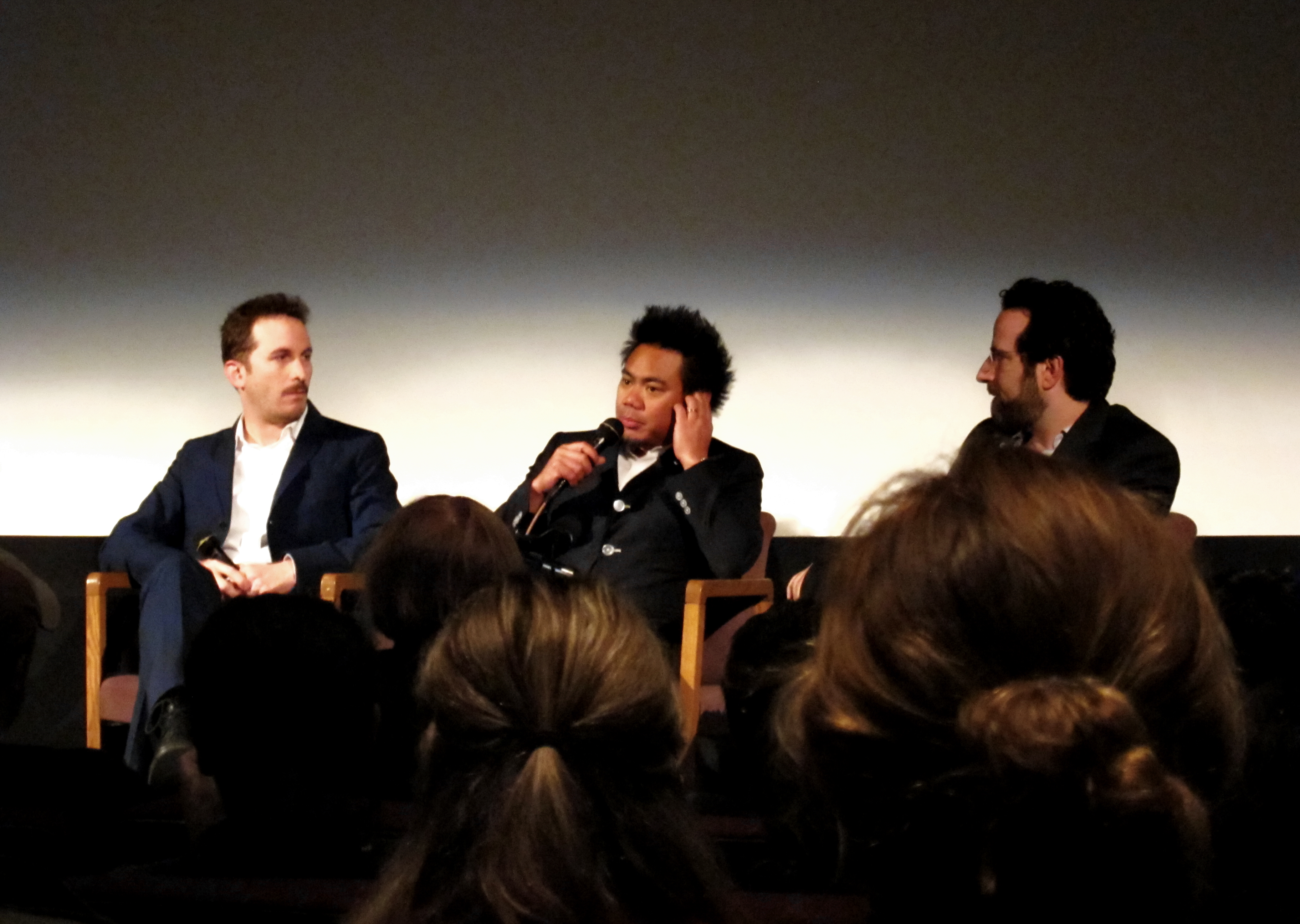 Q&A after Black Swan at The Aero, Santa Monica Darren Aronofsky - Director Matthew Libatique - Cinematographer Andrew Weisblum - Editor